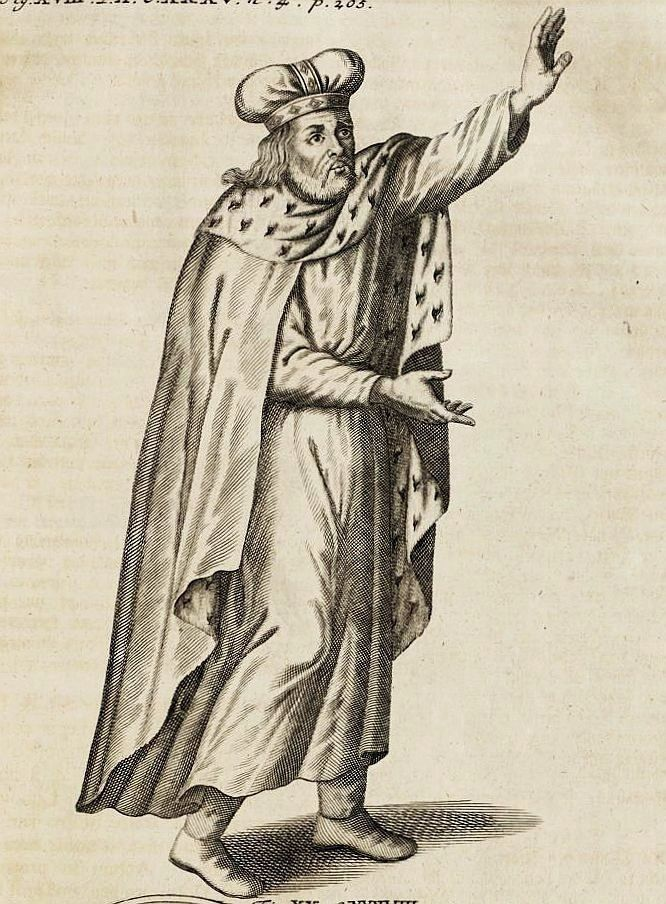 Wenceslaus I (1310/18-1364), Duke of Legnica